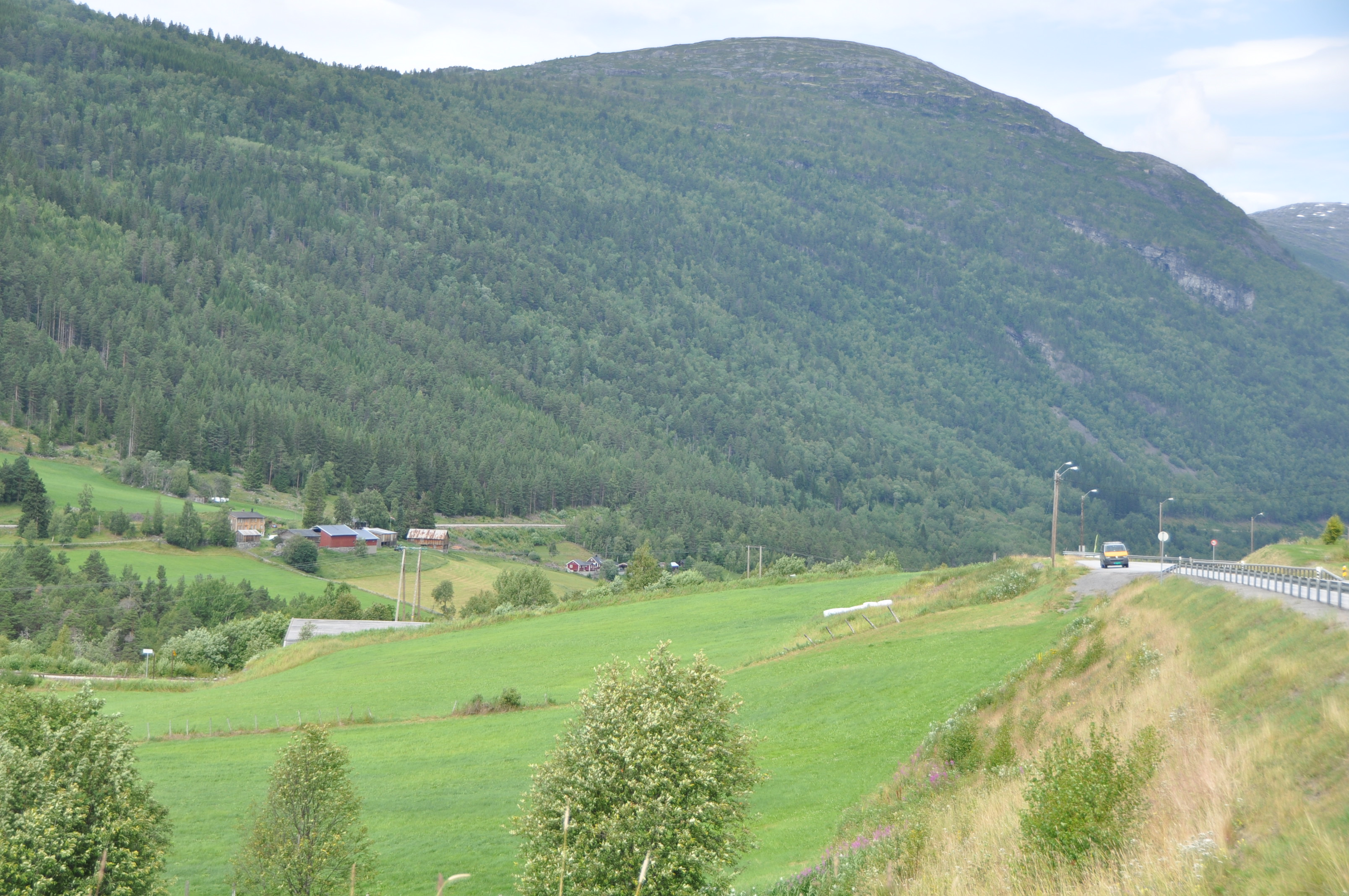 Kylling tunnel (Raumabanen) entrance under road E136 at Verma.